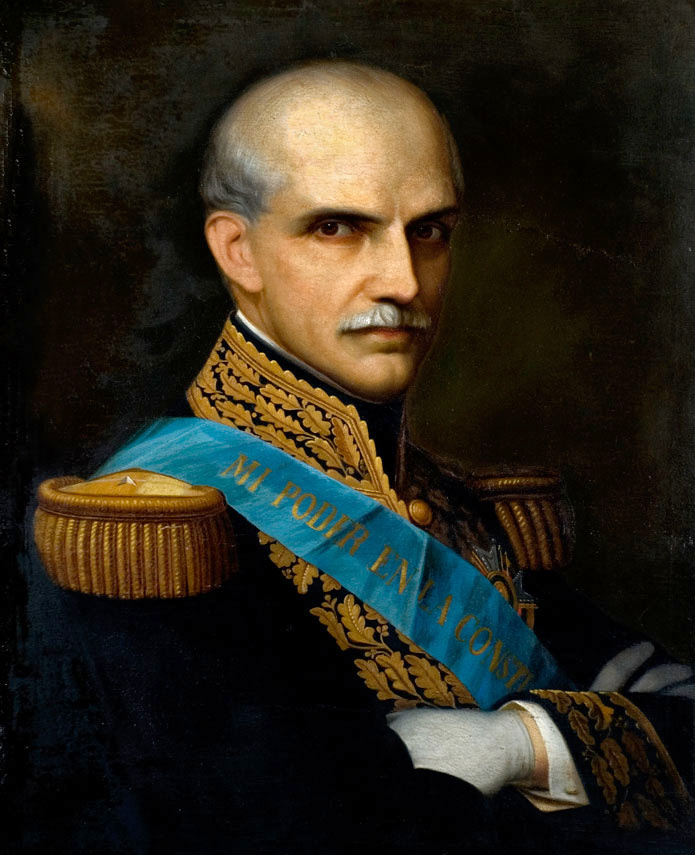 Picture of the former ecuadorian president Gabriel garcía Moreno.